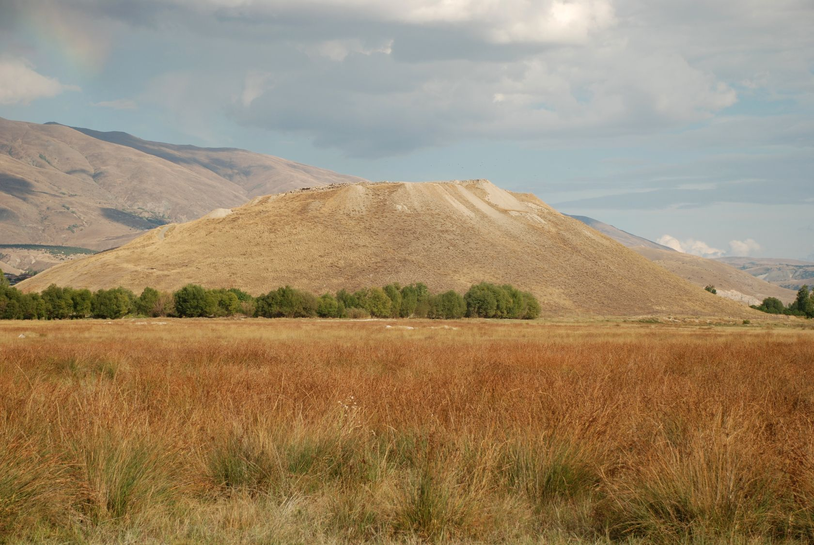 Altintepe, near Erzincan, hill from southwest